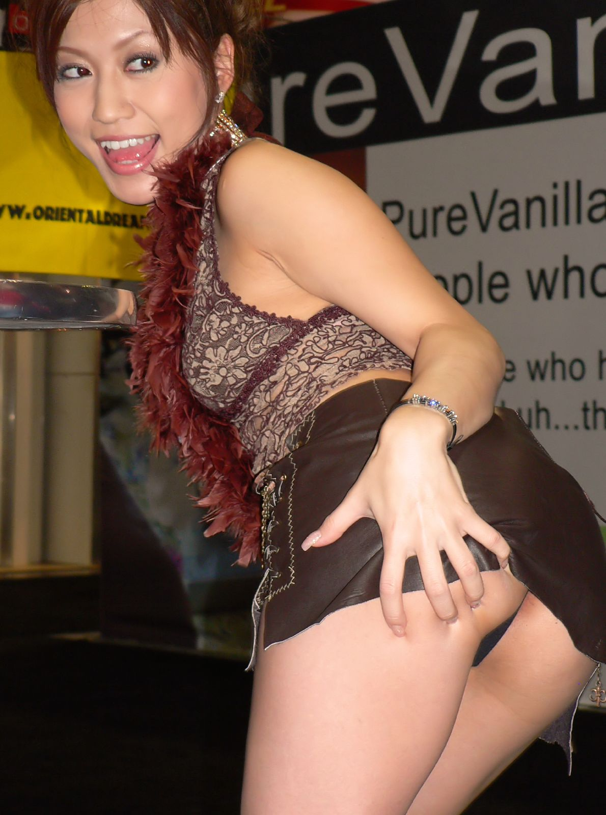 Emiri Sena at the 2007 Las Vegas Adult Entertainment Expo.